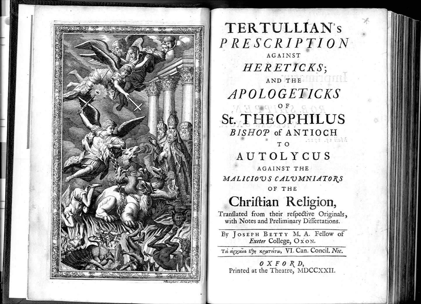 Joseph Betty, Tertullian's Prescription against Hereticks. Oxford (1722).